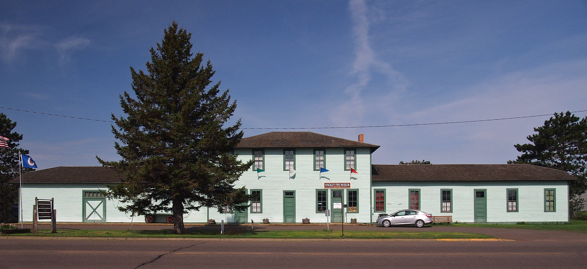 Hinckley Fire Museum, 106 Old Highway 61, Hinckley, Minnesota, USA. Viewed from the east.